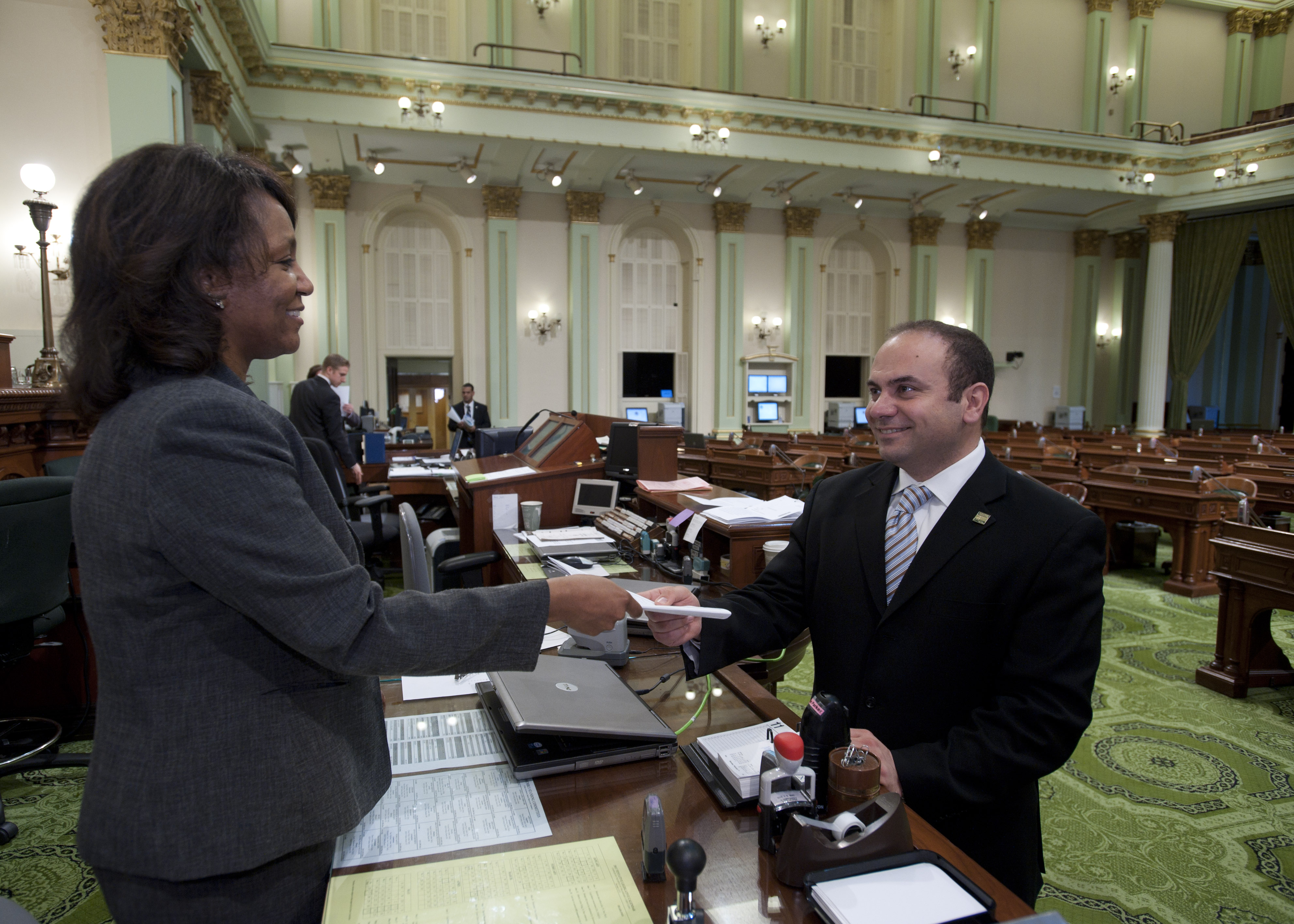 Nazarian introducing his first bill in his first term in office.